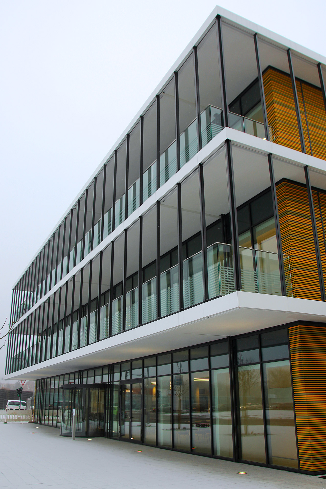 Paul Gerhadt Haus (Hospital), Regensburg - front